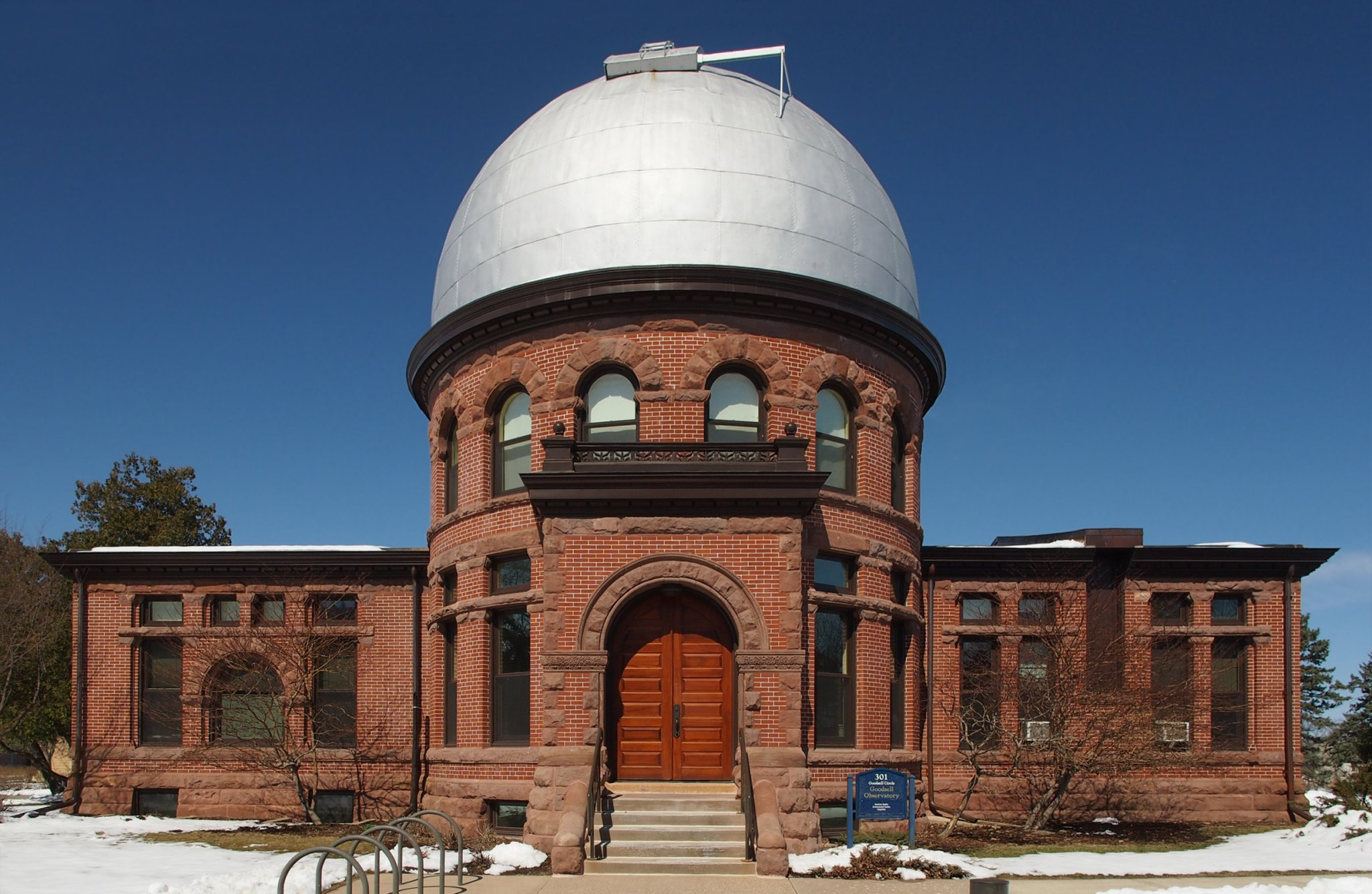 Goodsell Observatory, Carleton College, Northfield, Minnesota, USA. Viewed from the south.